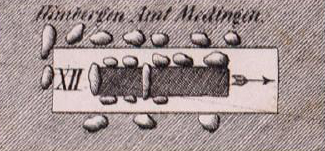 Megalithic tomb near Brockhimbergen, Sprockhoff-No. 789